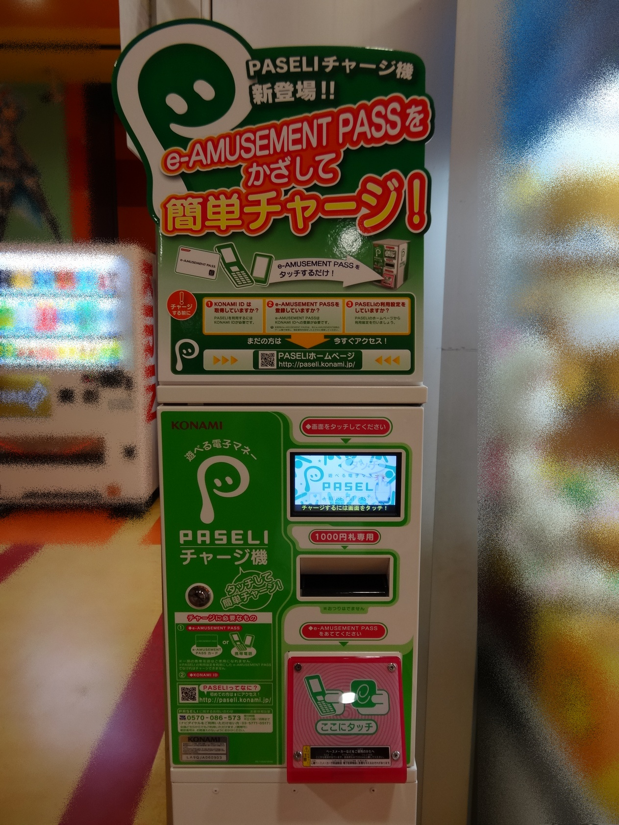 PASELI Charger. PASELI is an Electronic Money by Konami Digital Entertainment.